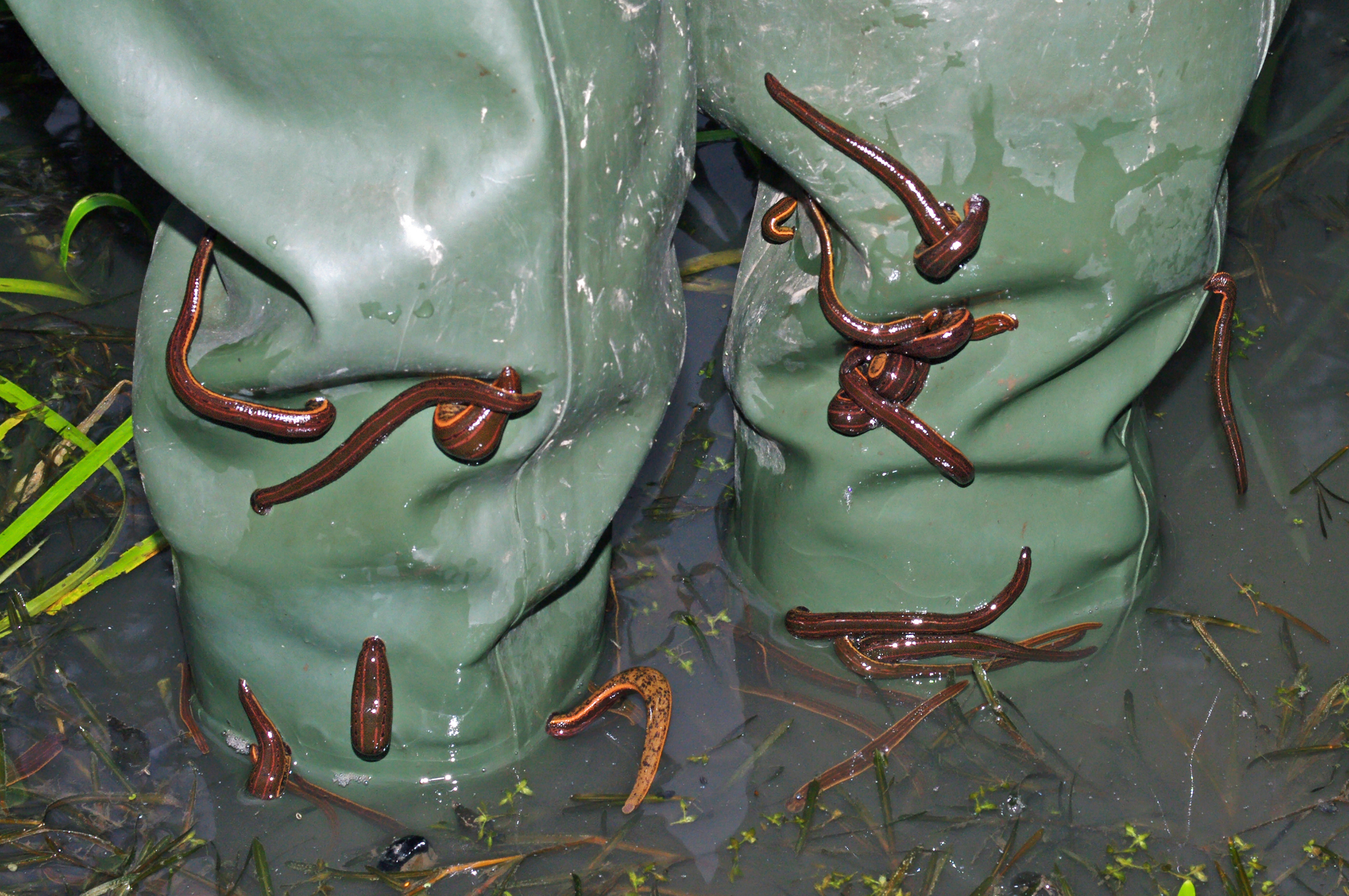 "Attack" by dozens of hungry European Medicinal Leeches, Hirudo medicinalis, while wading across a small weedy pond. Swimwear would not have been recommended here... Such a dense population of several hundred leeches is quite unusual in Central Europe – medical leeches have become a rare species in the wild.